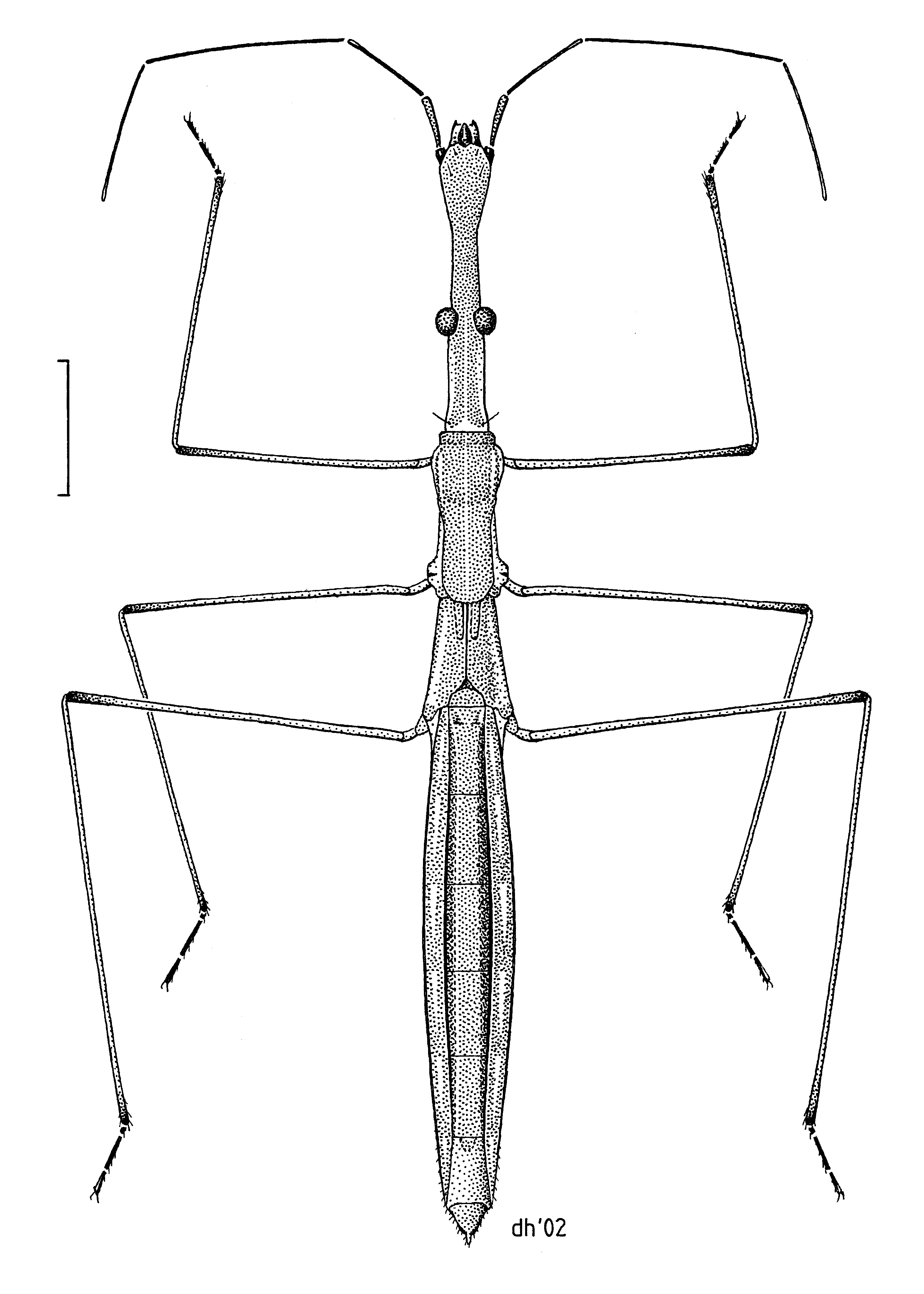 (Hemiptera: Hydrometridae) Hydrometra strigosa illustrated by Des Helmore.